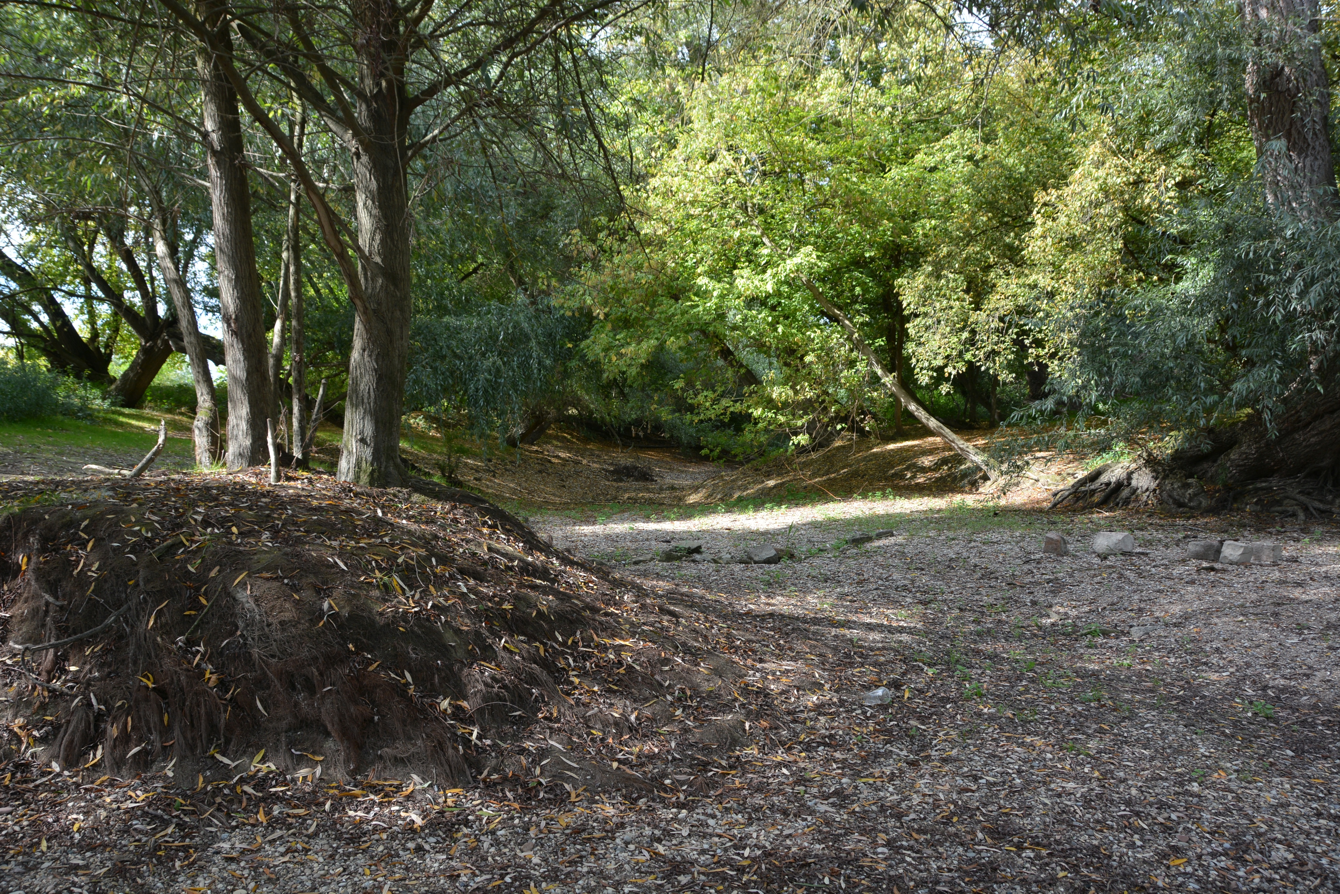 Forest park, Mannheim, Germany, small Rhine arm "Hagbau-Schlute" in the protected nature area "Bei der Silberpappel", dry during low Rhine water level.